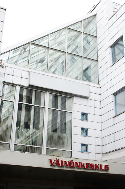 Vainonkeskus viewed from kävelykatu